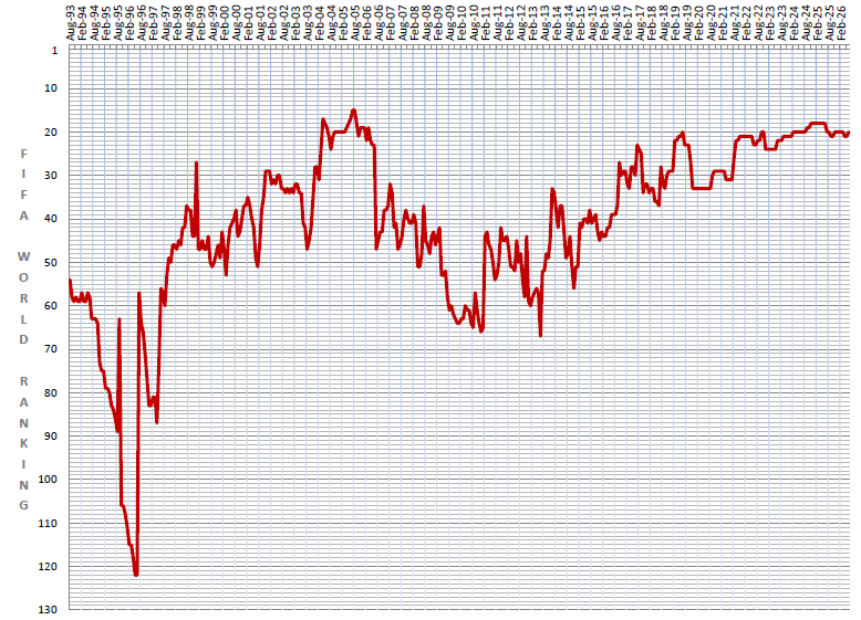 FIFA World Ranking Diagram for Iran national football team — The Iran national football team (Team Melli) is controlled by the Iranian Football Federation (FFIRI). This is a diagram representing the Team Melli's ranking trend as defined by the FIFA World Rankings beginning in August 1993 until March 2014. All the dates and corresponding rankings making up the diagram can be confirmed at Iran: FIFA/Coca-Cola World Ranking - .